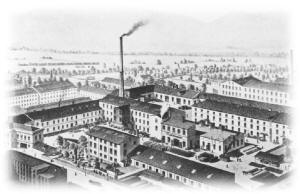 Factory G. Josephy's Erben in Bielsko, 19. century.